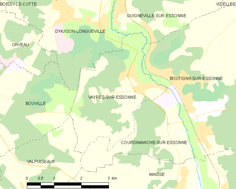 Map of French municipality Vayres-sur-Essonne